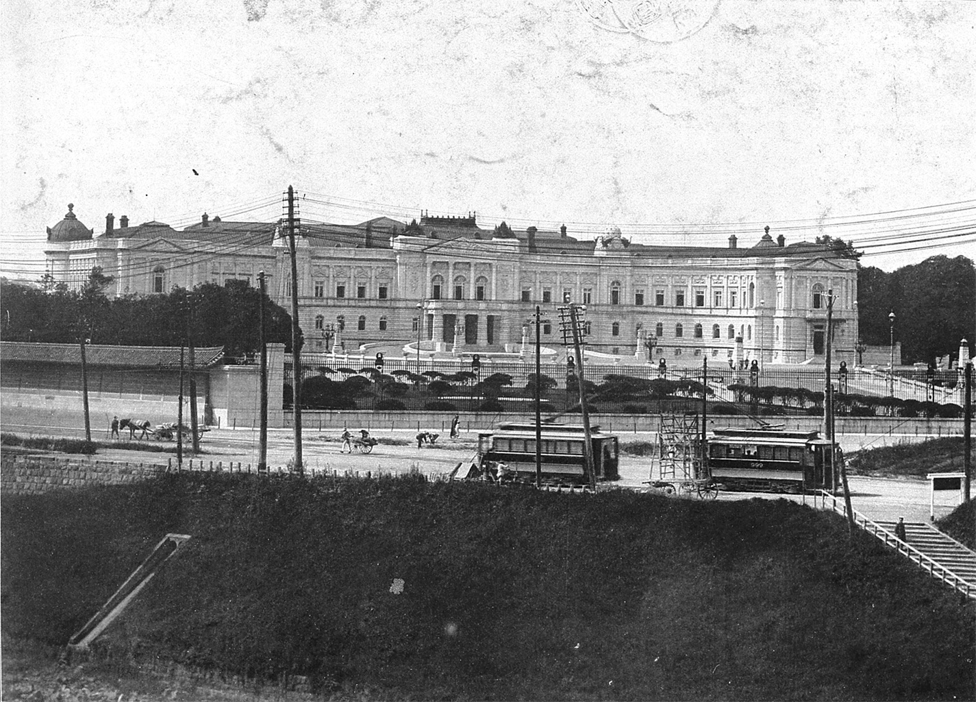 Palace of the Crown Prince. Address (Meiji Era) Akasaka-ku, Motoakasaka-machi. Address (Present) Minato-ku, Motoakasaka. Late Edo Period Residence of Kishu (Tokugawa) Clan. Present (as of January, 2007) the Guest House in Akasaka.